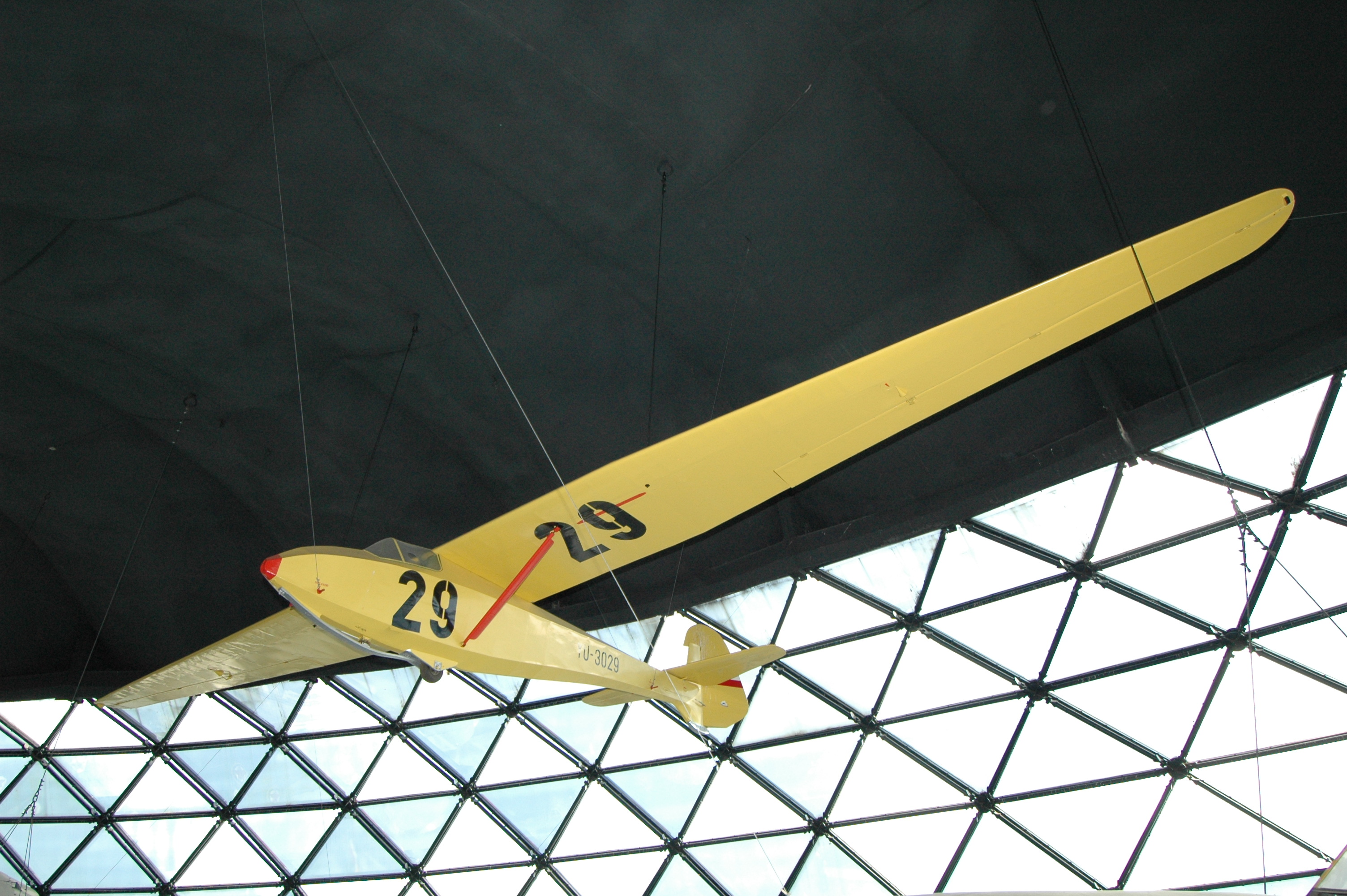 Utva Jastreb 54